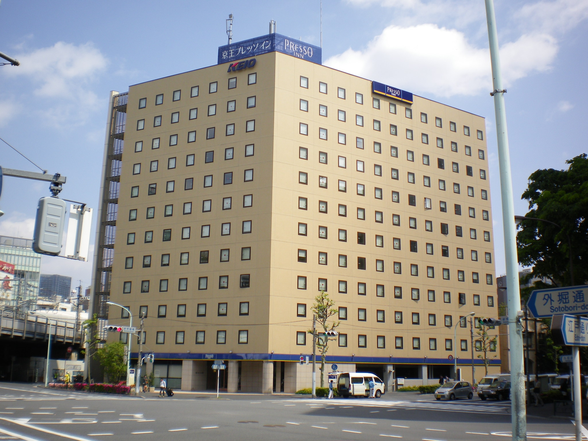 The Keio Presso Inn Otemachi. This place is Nihonbashi Hongoku Cho in Chuo, Tokyo, Japan.